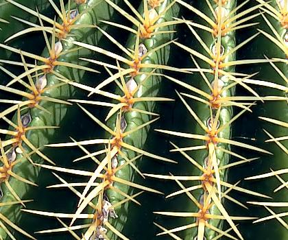 Close-up of areoles on a Golden Barrel. Cropped from Image:Echinocactus grusonii (aka).jpg.